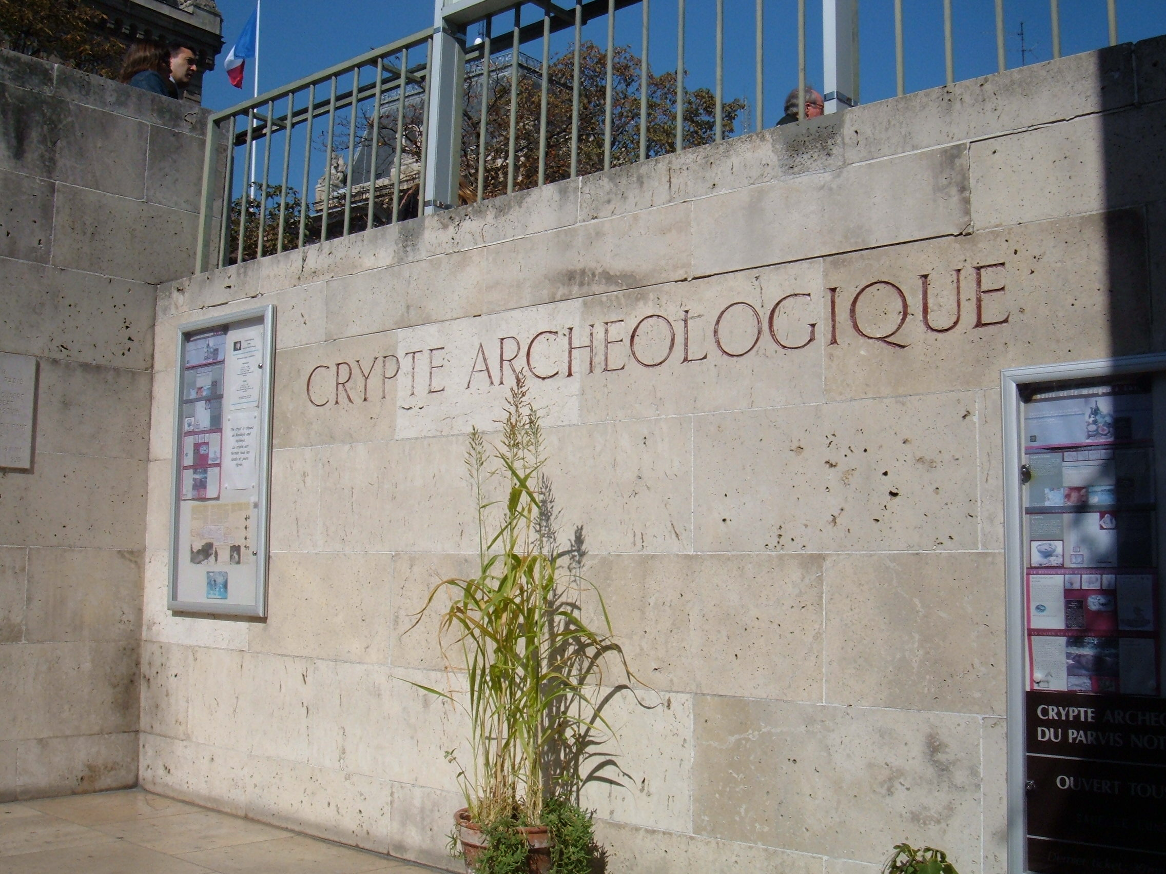 The exterior of the archaeological crypt of Notre Dame de Paris in Paris, France.